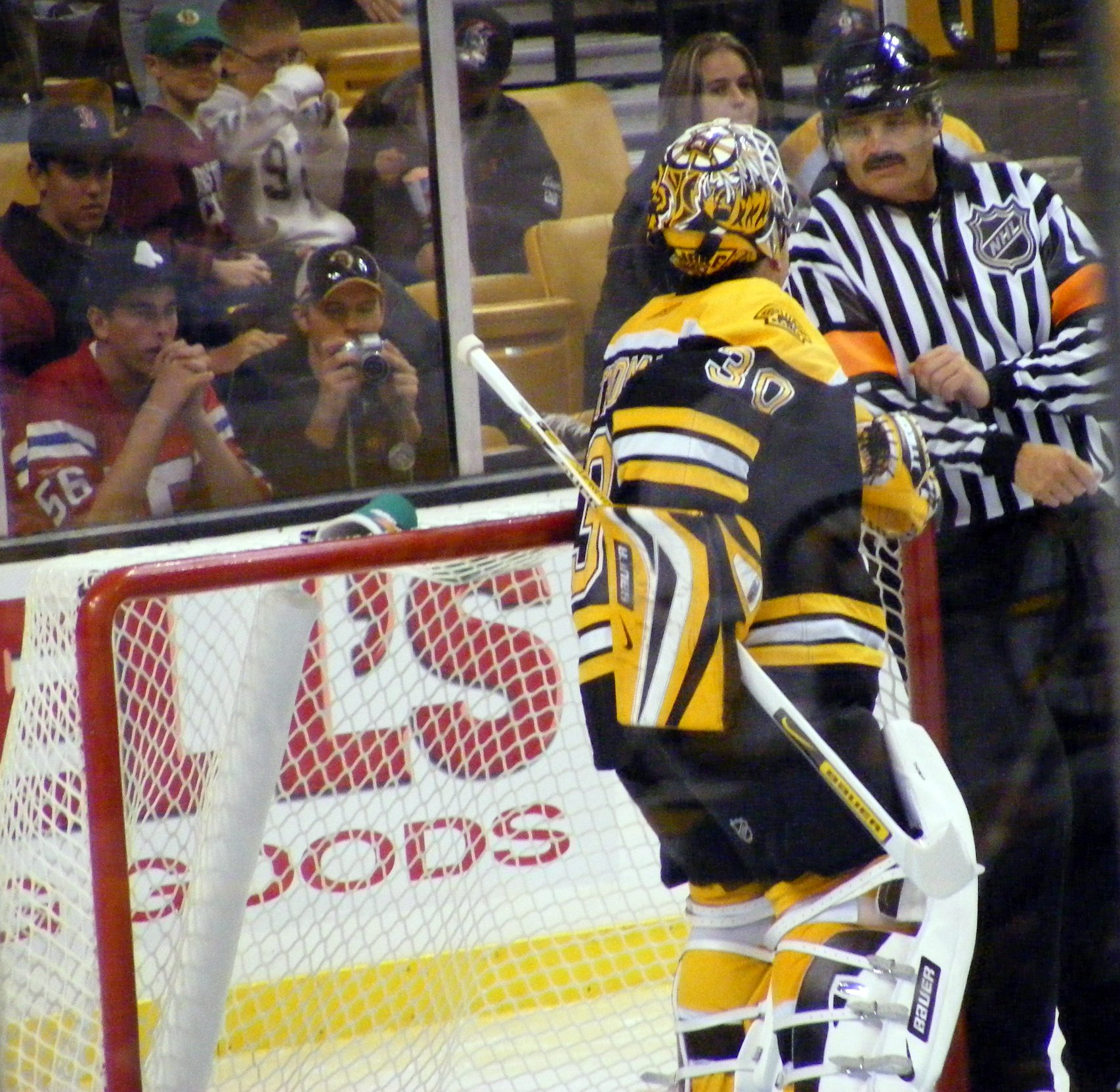 Tim Thomas (l) convering with official Don Van Massenhoven